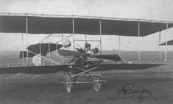 EDA-1 - first Edvard Rusjan's plane